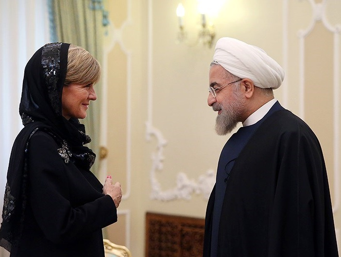 Iranian President meets Australian Foreign Minister, Julie Bishop in his office in Saadabad Palace